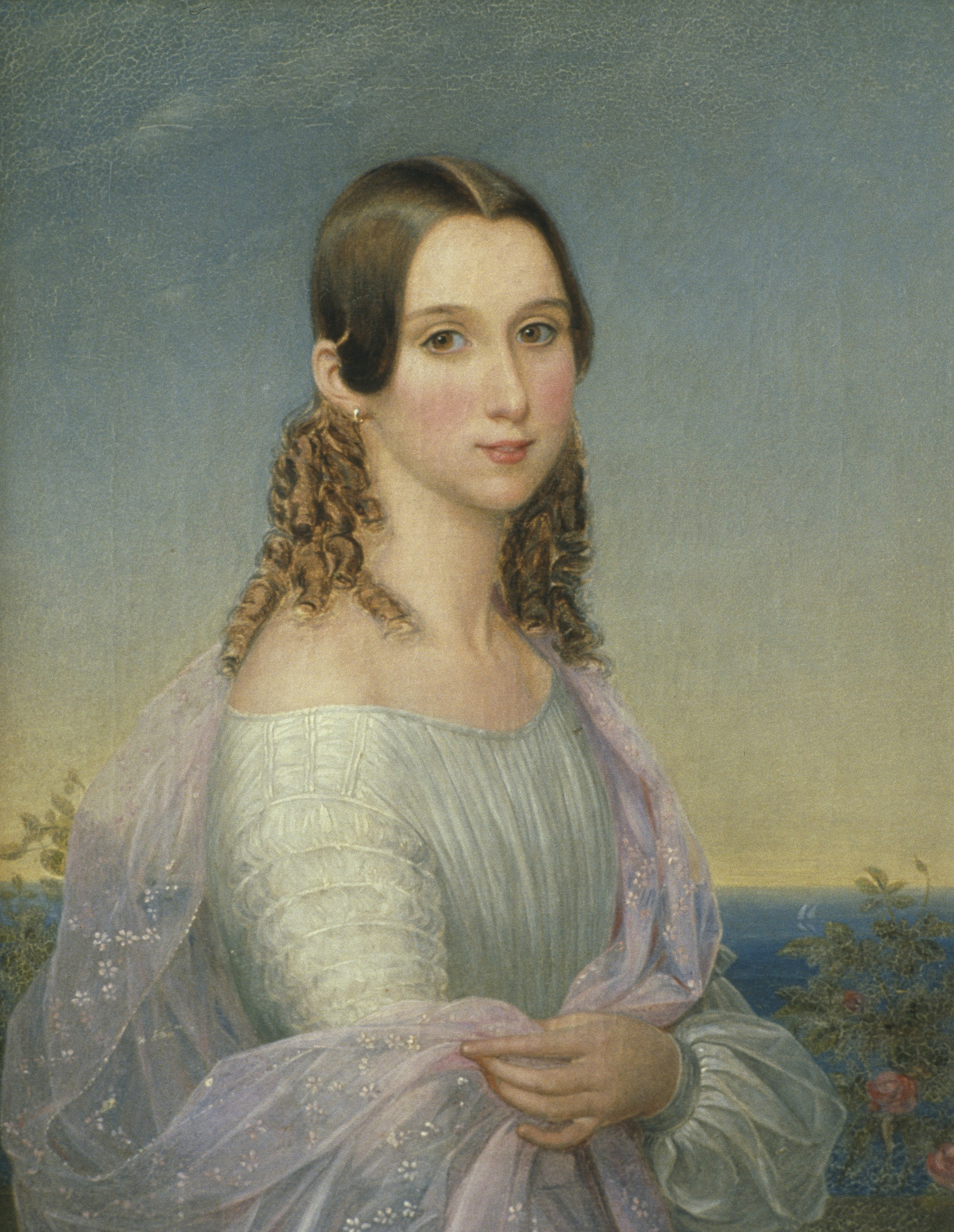 swedish and norwegian princess